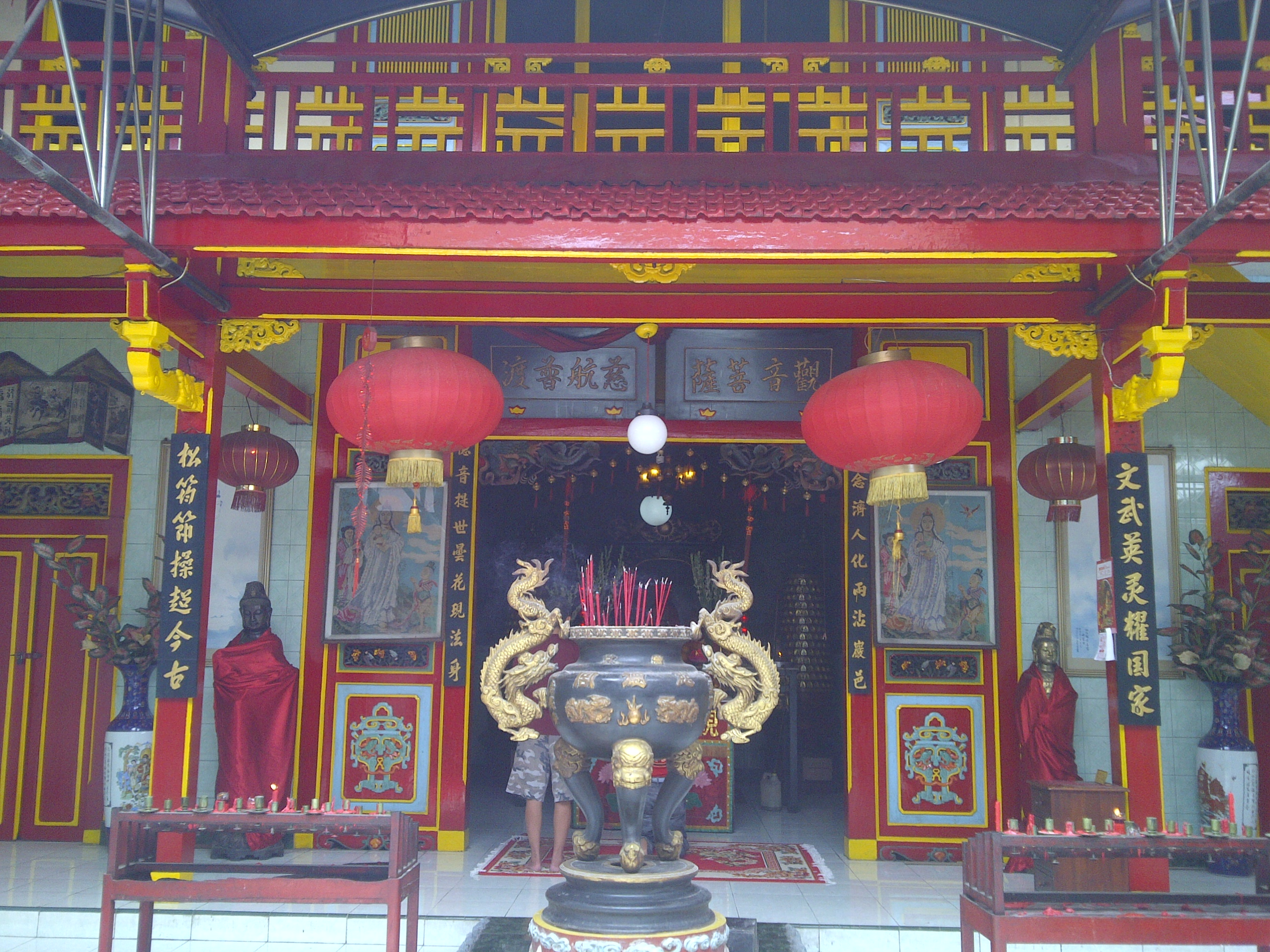 The inner room of Tjoe Tik Kiong Temple, Pasuruan, East Java, Indonesia, contain the altars of Guan She Yin, Buddha, Confucius, and Laozi